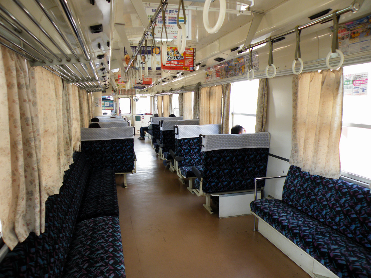 Interor of Matsuura Railway MR-100